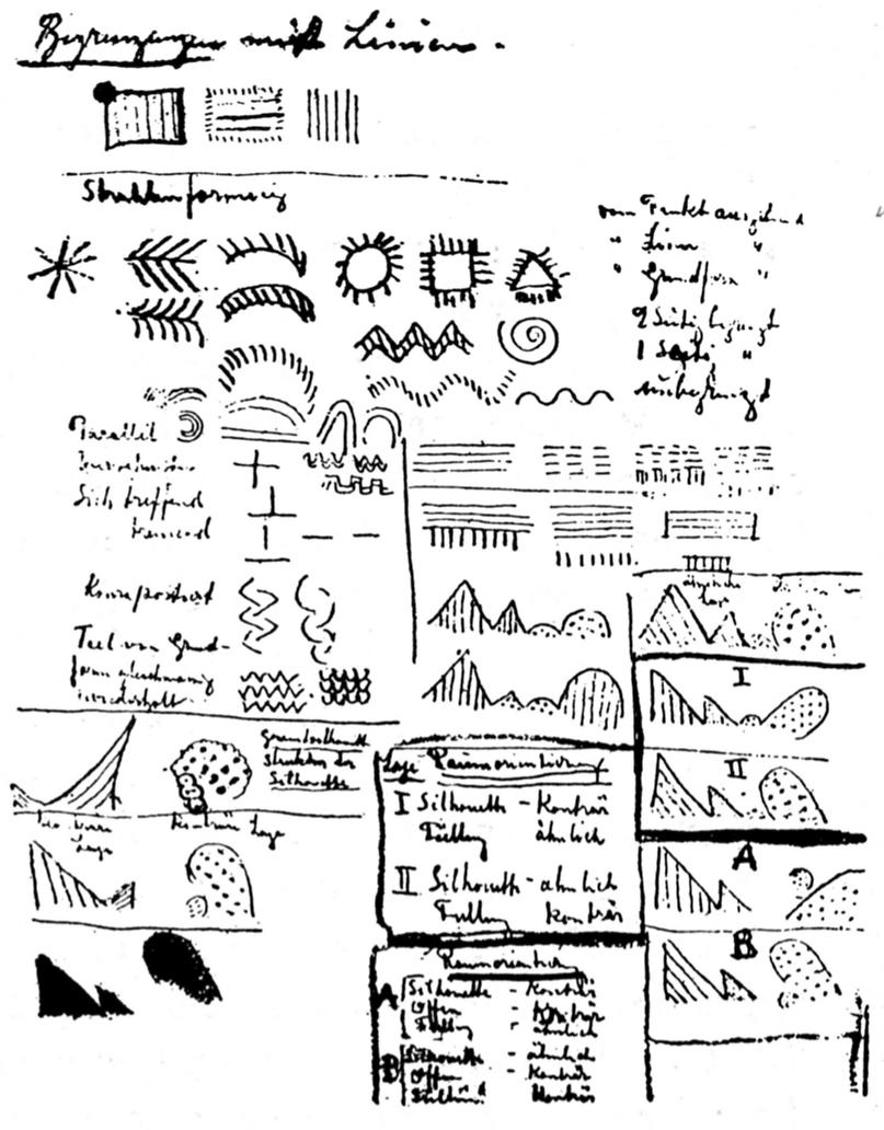 Viking Eggeling. Material for the 'Generalbass der Malerei'. 1918. Ink on papier (?). Dimensions and location unknown.